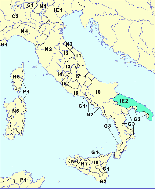 messapic language area